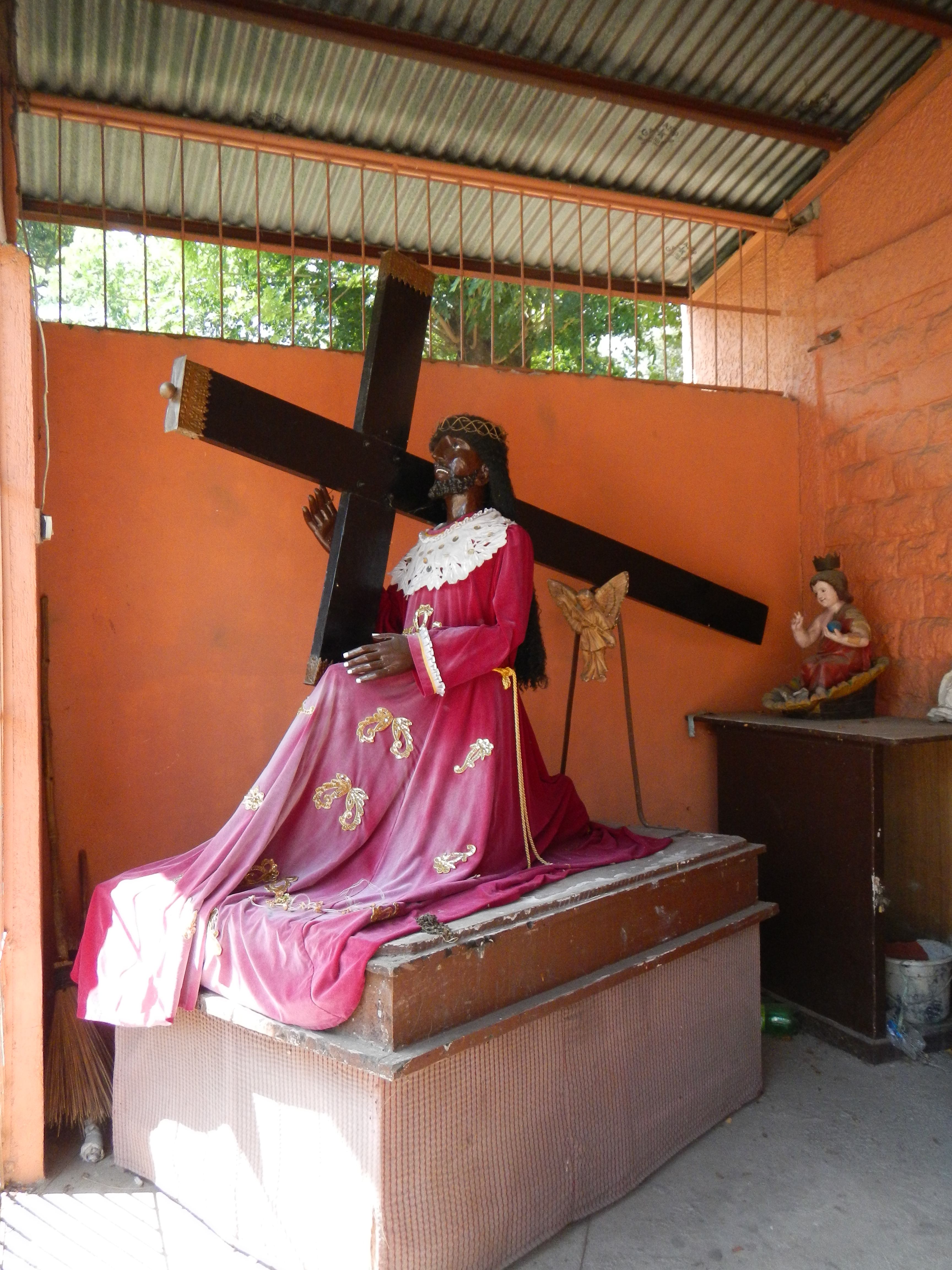 (F-1772) Immaculate Conception Parish Church of Victoria - Victoria,[1] 2313 Tarlac, Philippines Titular: Immaculate Conception, December 8 Parish Priest: Father Vely Lapitan Parochial Vicar: Father Arnulfo Corpuz Vicariate of Immaculate Conception Vicar Forane: Father Vely Lapitan [2] [3] Roman Catholic Diocese of Tarlac[4] Victoria, Tarlac[5] is a second class municipality in the province of Tarlac, Philippines. According to the 2010 census, it has a population of 59,987 people. The municipality is located in the Province of Tarlac, geographically located in the central part of Luzon. It lies between 1”42’ north latitude and 120º35’ and 120”45 east longitude. It is bounded by Tarlac City, municipalities of Pura Gerona, La Paz and to the east by the Province of Nueva Ecija. The municipality has a total land area of 11,150 hectares, of which a large portion is used for agricultural activities.New Website [6]Land Area: 111.51 km² ZIP Code: 2313 Coordinates: 15°34'34"N 120°41'25"E[7] This place is situated in Tarlac, Region 3, Philippines, its geographical coordinates are 15° 34' 39" North, 120° 40' 56" East and its original name (with diacritics) is Victoria.[8]PNOC-EDC to drill more wells in Victoria, Tarlac March 20, 2002 [9]VICTORIA, FIRST TO ESTABLISH TSU – CAMPUS OFF – TARLAC CITY ----- By 1850 there were already settled communities in what would later be called the town of Victoria. The biggest was in Namitinan (now in Sitio in Brgy. Canarem) which was of Ilocano settlers who decided to live close to Canarum Lake. The Kapampangan had gone as far as Baculong and Maluid. Like the Ilocano, they too were in search of land to till. There was one other community in Palacpalac. The barrio was named after a tree which sap is utilized to make houses shiny. On March 28, 1855, Superior Governor General Miguel Crespo created the town of Victoria by virtue of a Superior Decree. There was no Poblacion to speak of then. Read more:[10]